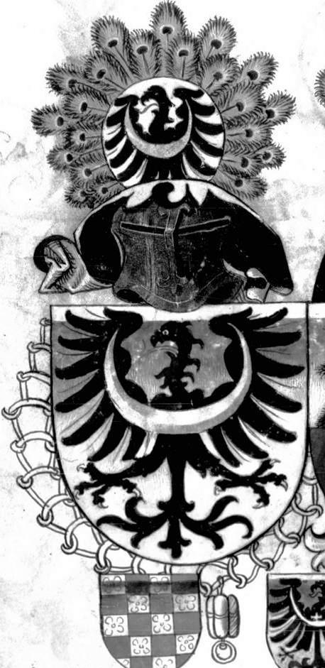 Coat of arms of Frederick I., duke of Liegnitz († 1488), with an insignia of a chivalric order "Rudenband". Black-and-white copy of a coloured drawing.